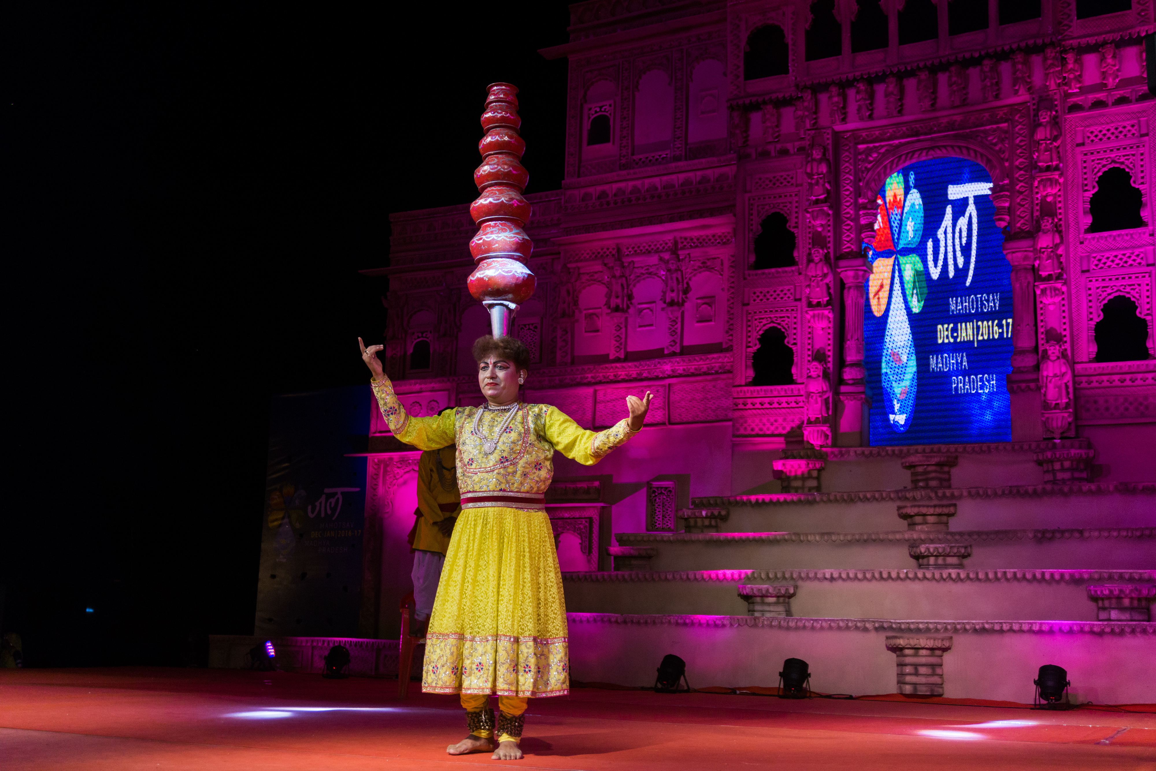 Dancer performing traditional dance of Malwa by balancing earthen pots during the cultural program at Jal Mahotsav 2016-17, Hanuwantiya, Madhya Pradesh.